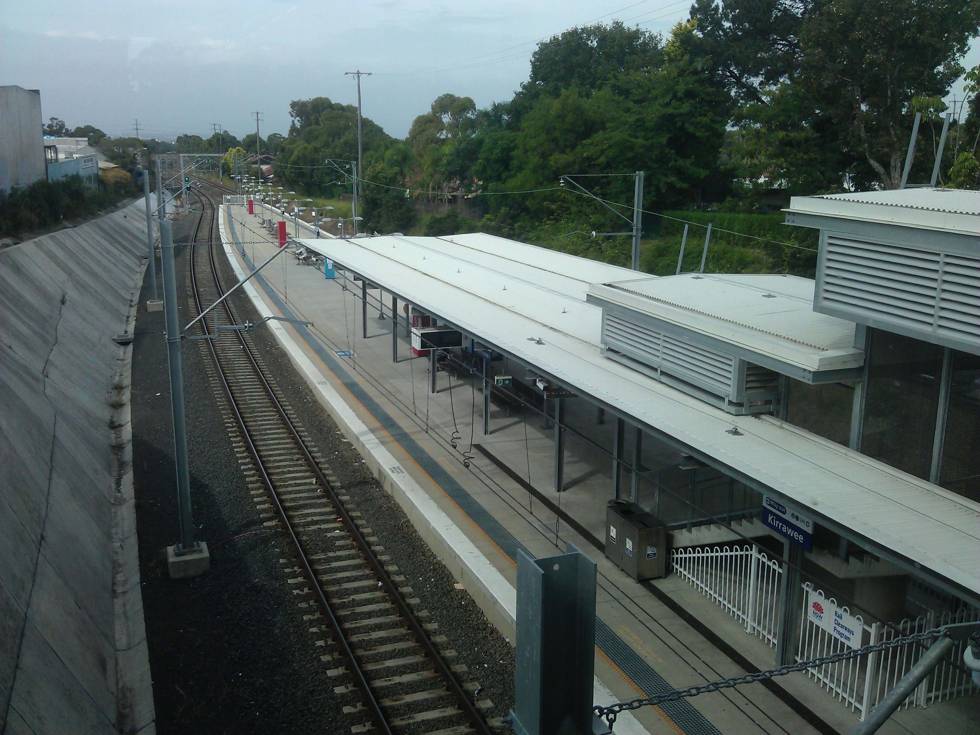 Kirawee railway station